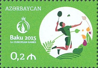 Baku 2015. First European Games.(2nd edition) N 1216 - 20 qapik – Badminton